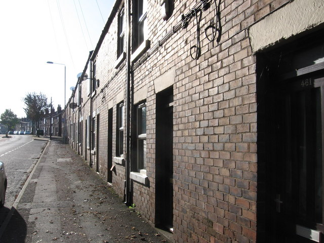 Pleasley - terrace on Chesterfield Road